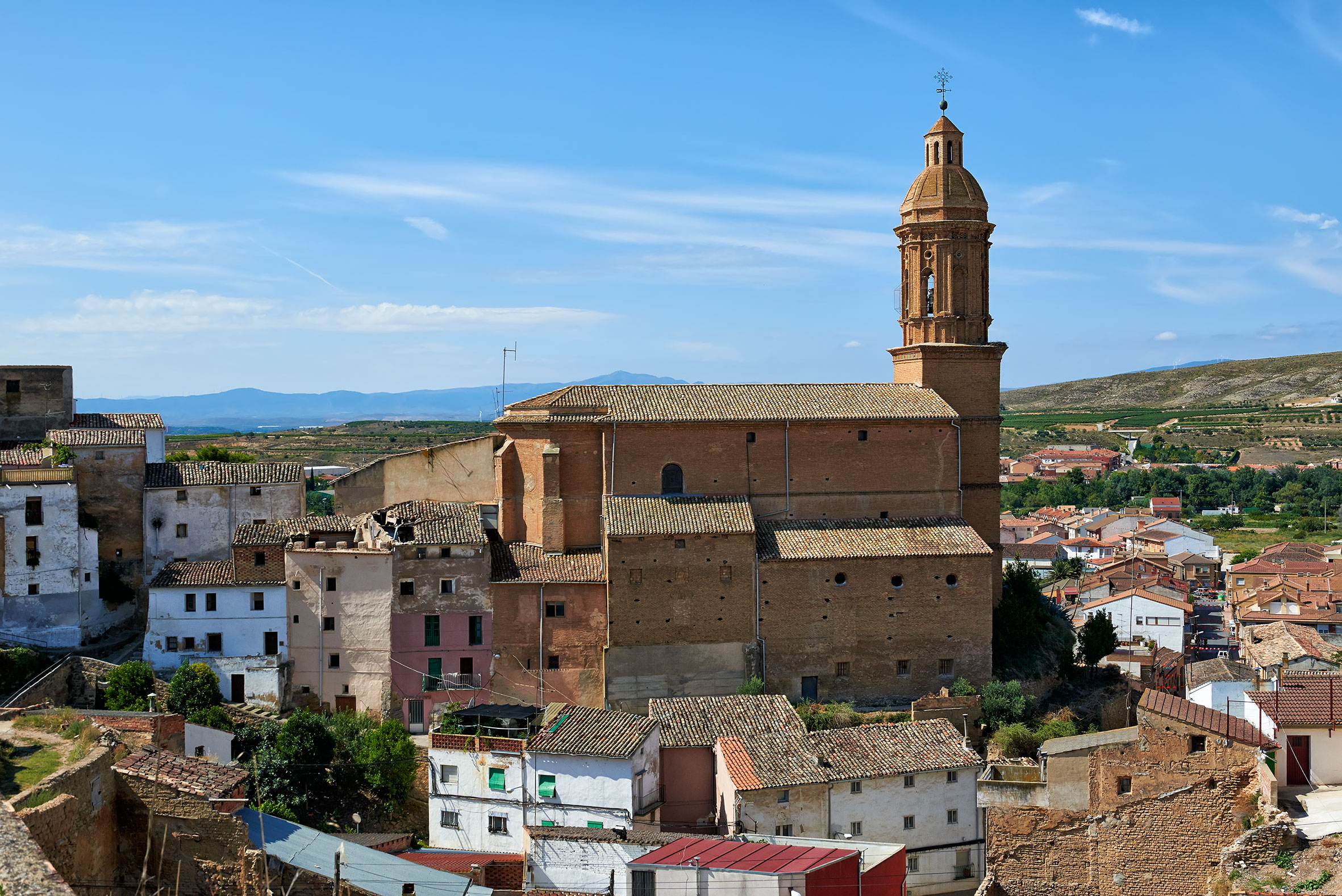 Church of Andosilla (Navarra, Spain)